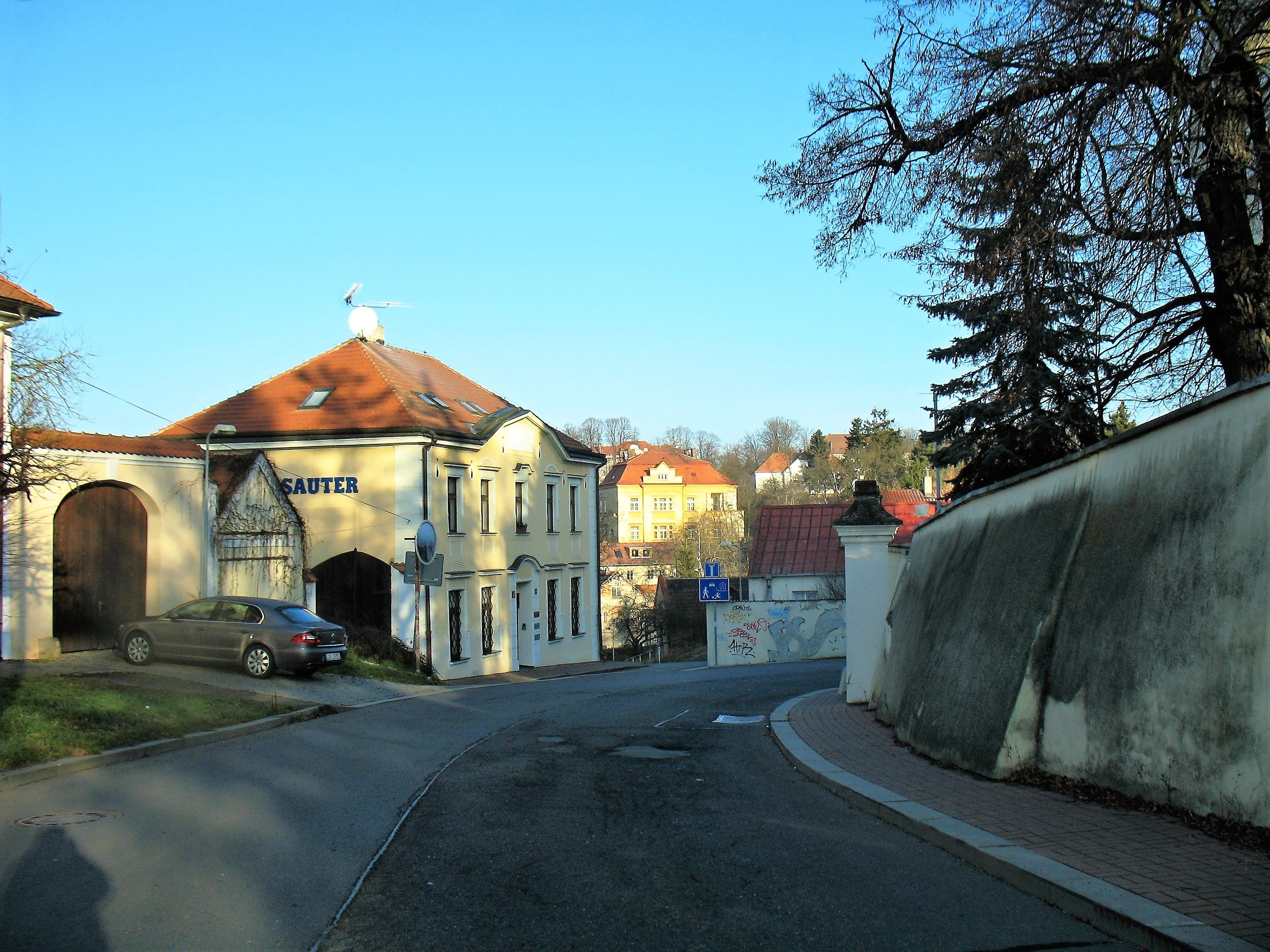 Heritage Zone of Village Staré Bohnice in Prague